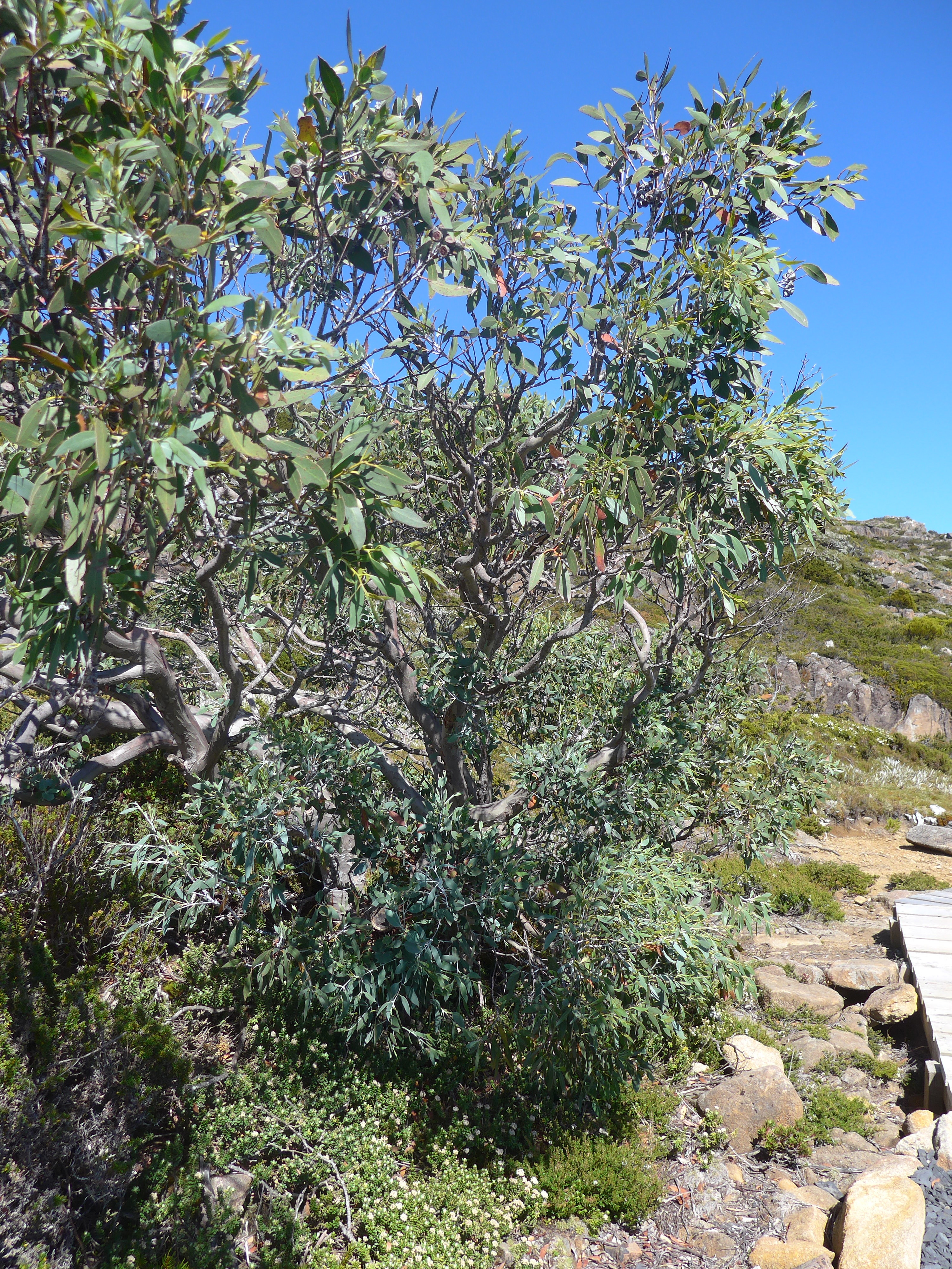 Taken in Mt. Field National Park, around 1200m above sea level.